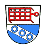 Coat of Arms of Riedenheim